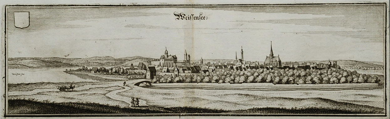 Engraving of Weissensee/Thüringen from the year 1650. Published in the Topographia Germaniae, 12th edition, from 1642 to 1654 in Frankfurt am Main.